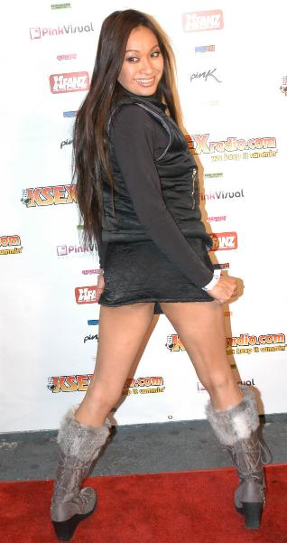 Syren at Listeners Choice Awards, December 2 2006